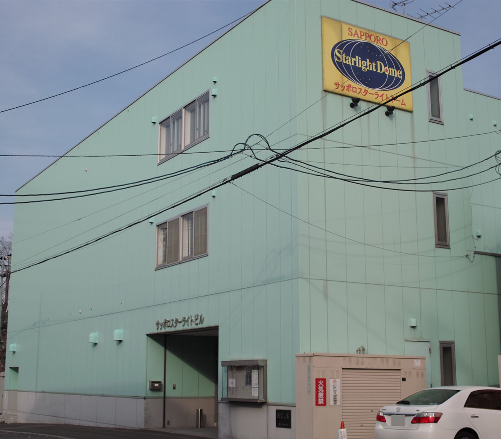 Sapporo Starlight Dome planetarium, Hokkaido, Japan